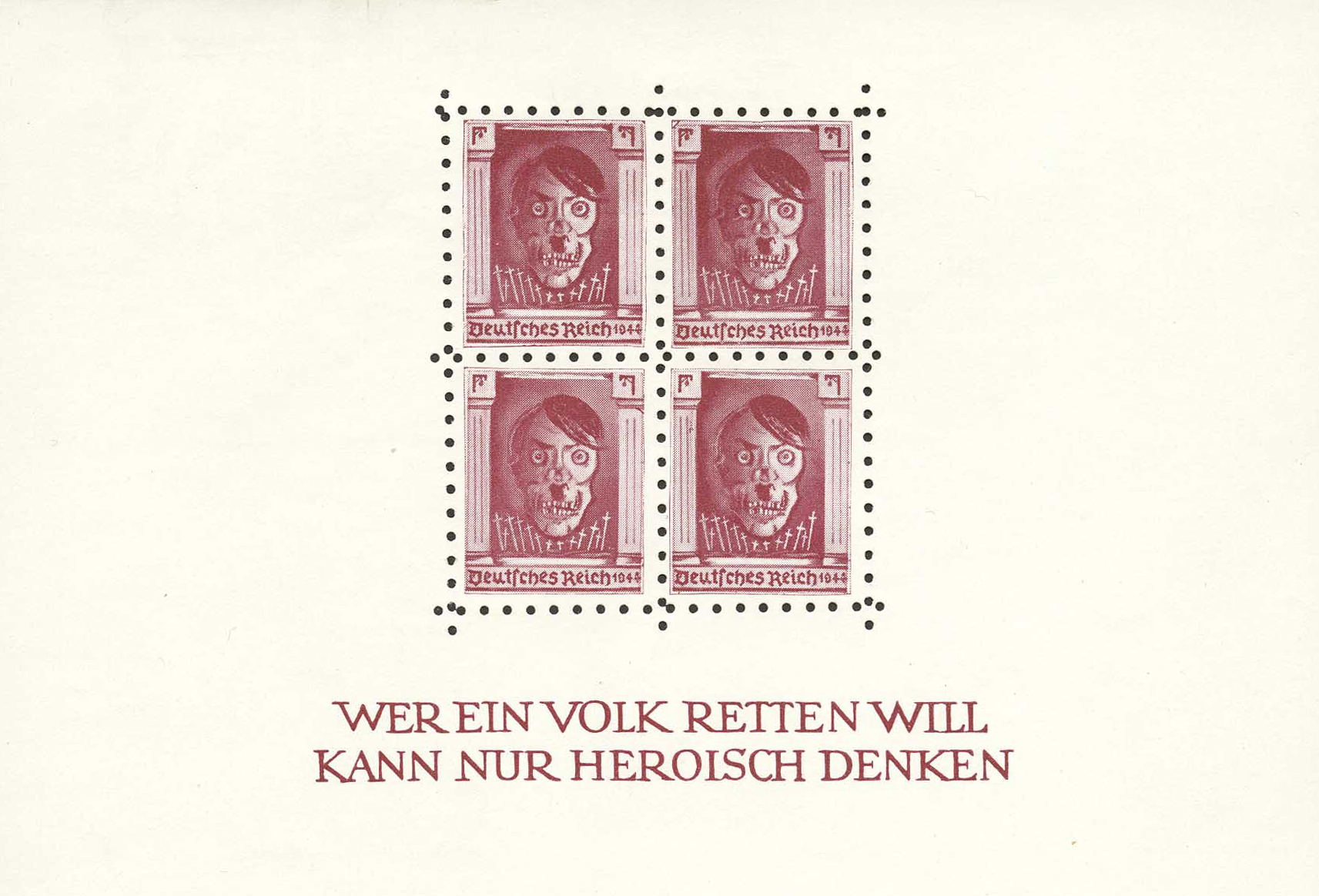 U.S. forgery for Germany. Produced in 1944 by members of the Office of Strategic Services (OSS) in Rome, Italy. Only five known stamp blocks are preserved, one of them as a "double stamp block". This block should be somewhat similar to the German Block Mi.-Nr. 646. It is listed in the German "Michel" stamp catalog as Nr. 18 a. The displayed specimen is a cropped part of the only known "double stamp block".